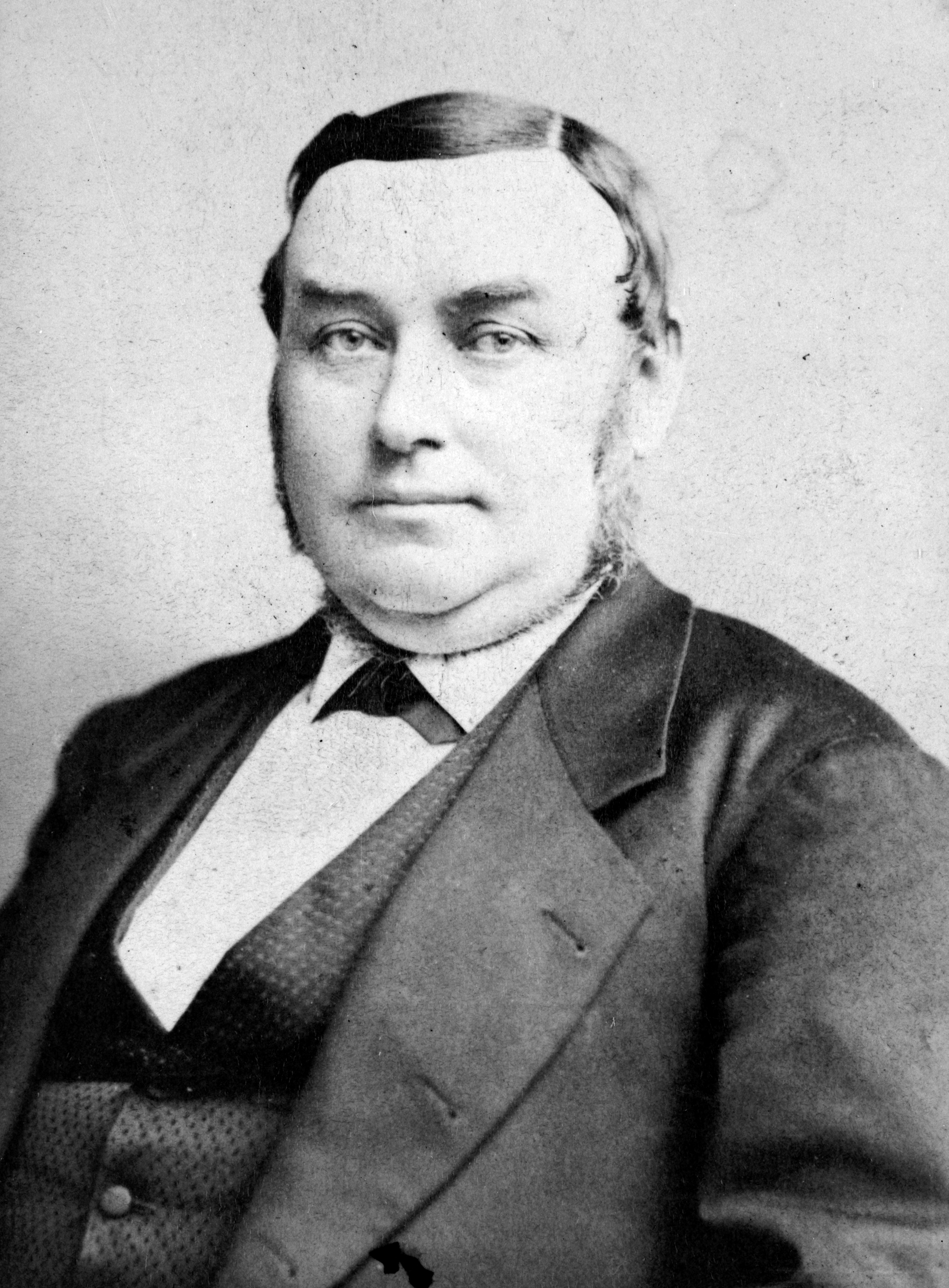 George William Childs, publisher, half-length portrait, facing slightly left